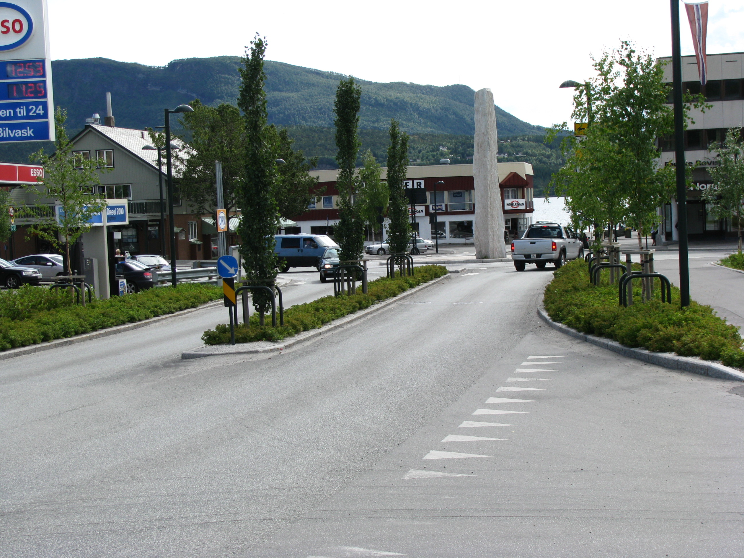 Looking south along the E6 road ("Arctic highway") near the centre of Fauske town, Nordland, Norway, towards the roundabout junction with the rv80 road. Part of the fjord can also be seen. The road going to the right in the jucntion is the Rv80 road leading west to Bodø (60 km). The road going to the left is the E6 continuing south towards Saltdal, the Arctic Circle, Mo i Rana (175 km) and eventually Trondheim (660 km along the road). In the centre of the roundabout is a marble obelisk.